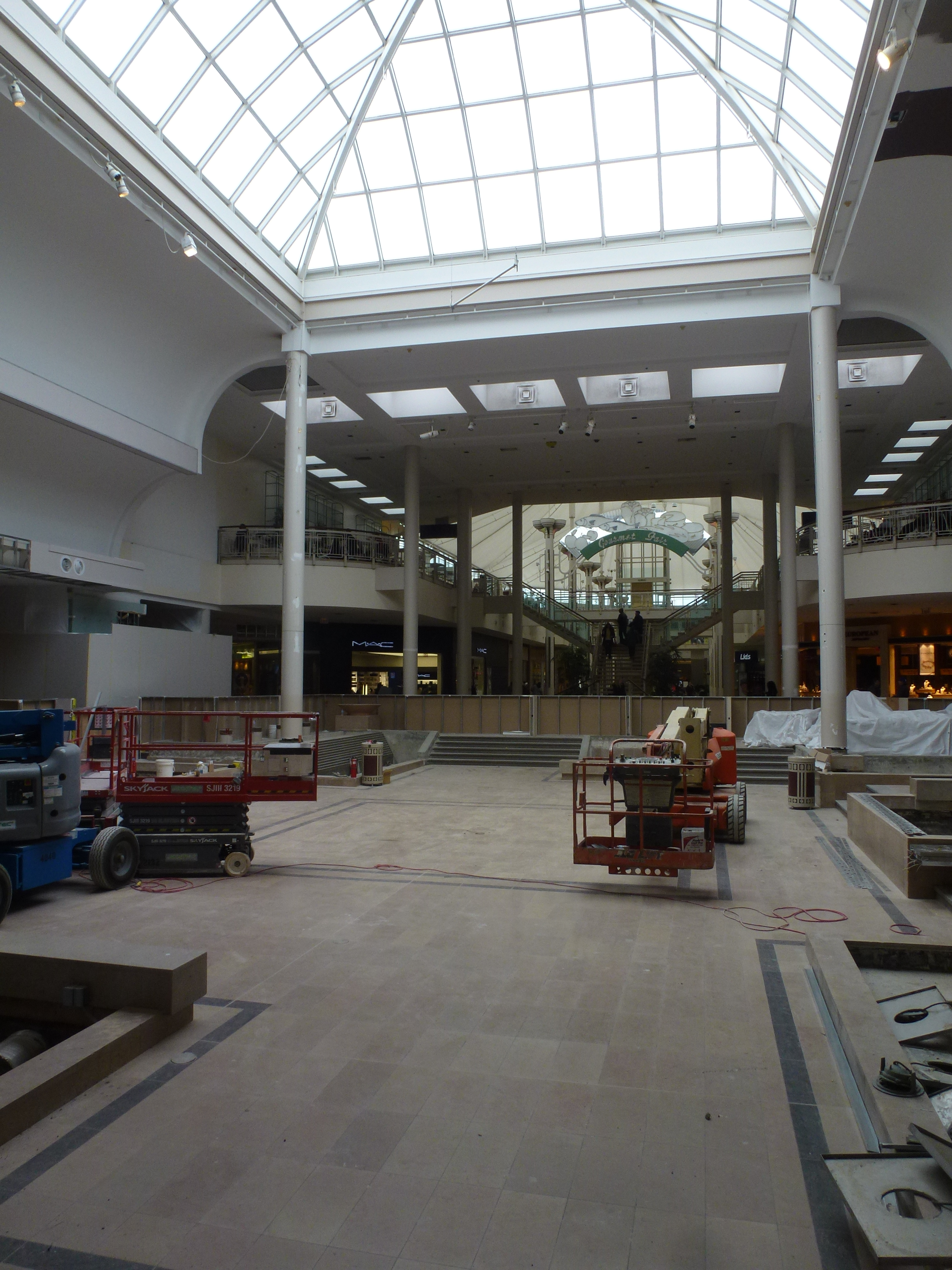 Construction at Sherway Gardens mall, 2014 04 03 (4).JPG